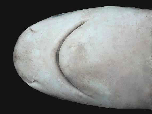 Carcharhinus leucas